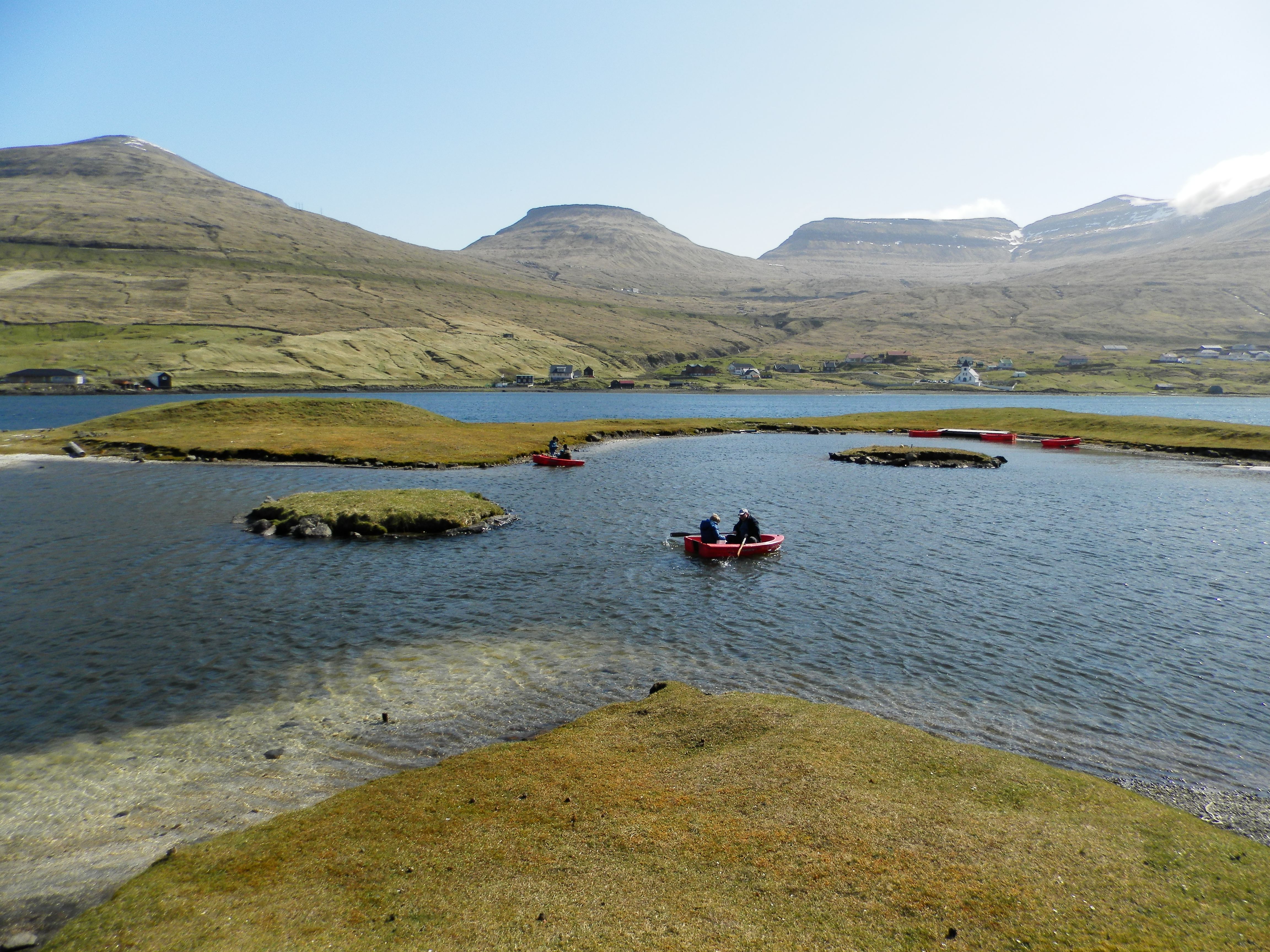 Nesvík, Streymoy, Faroe Islands in May 2013.